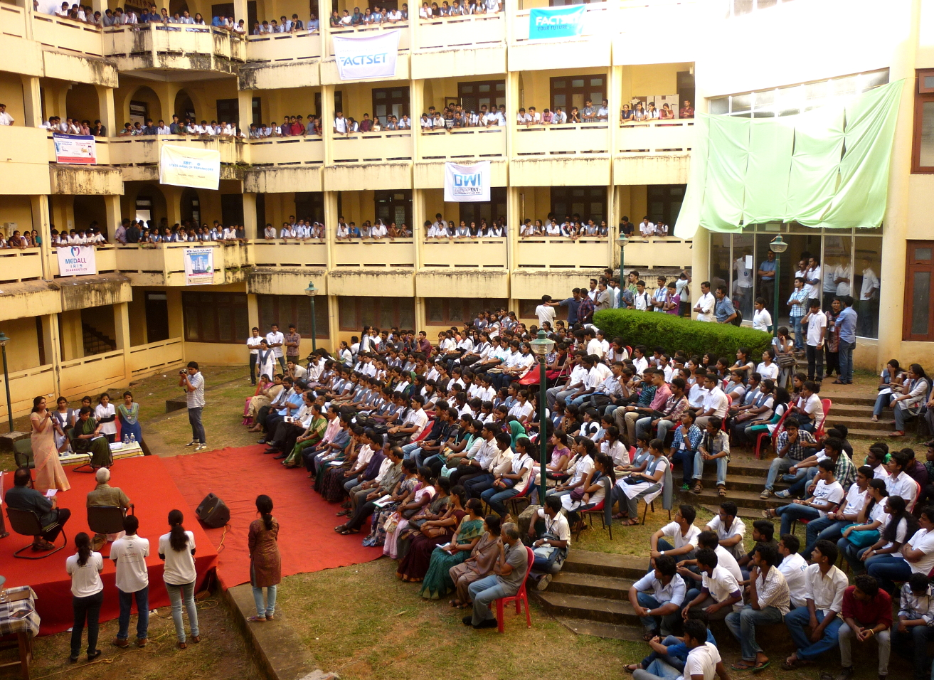 Technical Festival of Model Engineering College